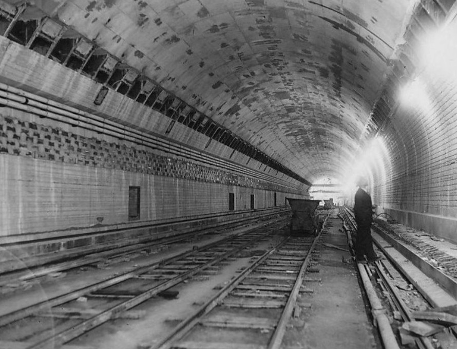 Photo of the Lincoln Tunnel under construction.